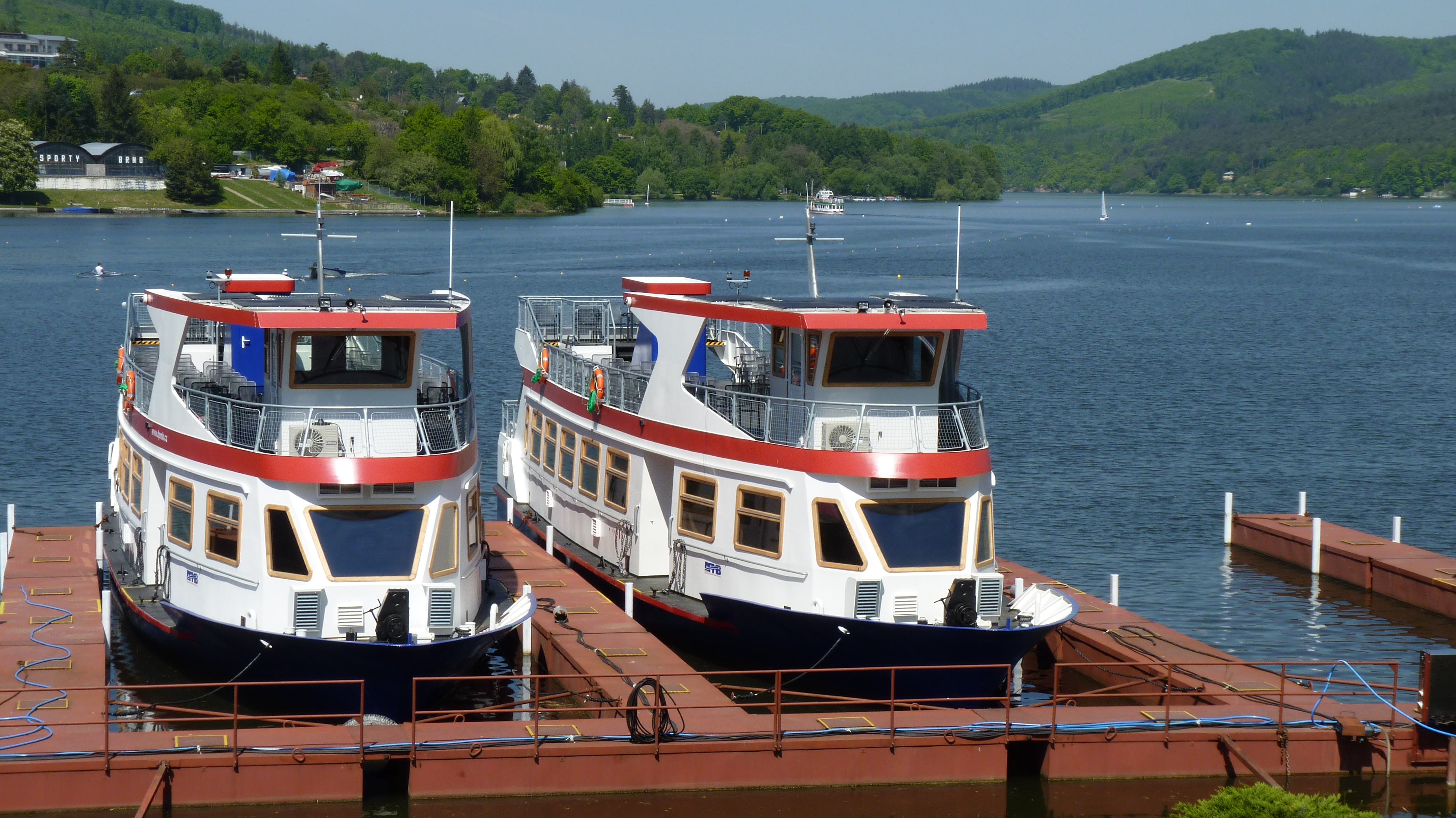 Brno Reservoir, Brno, South Moravian Region, Czech Republic